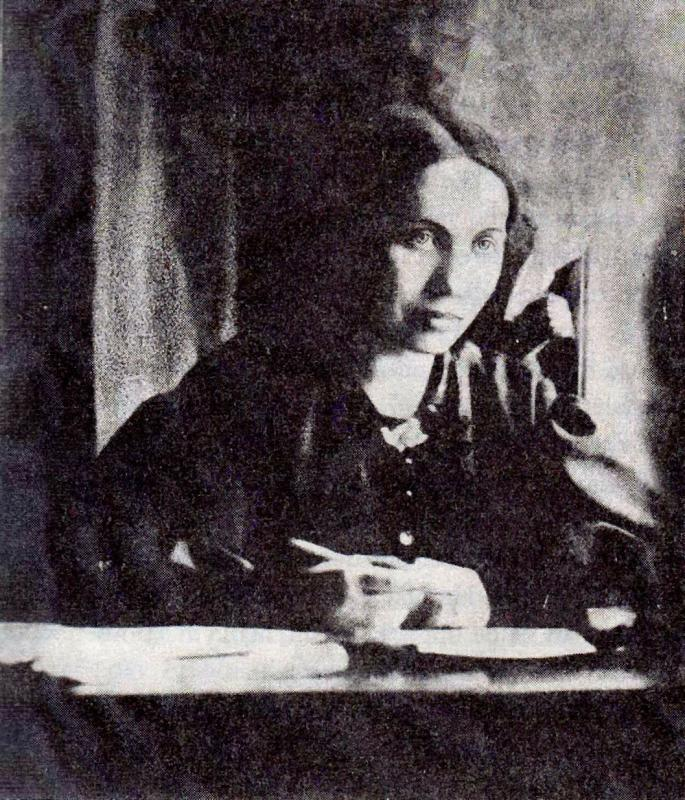 Photograph of the Swedish composer Elfrida Andrée (1841–1929).